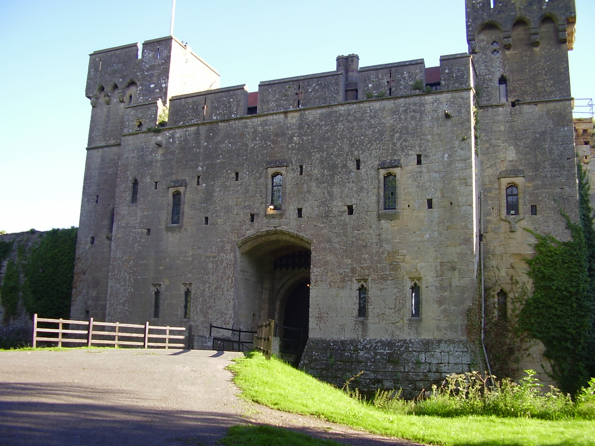 The front entrance of Caldicot Castle in south Wales.